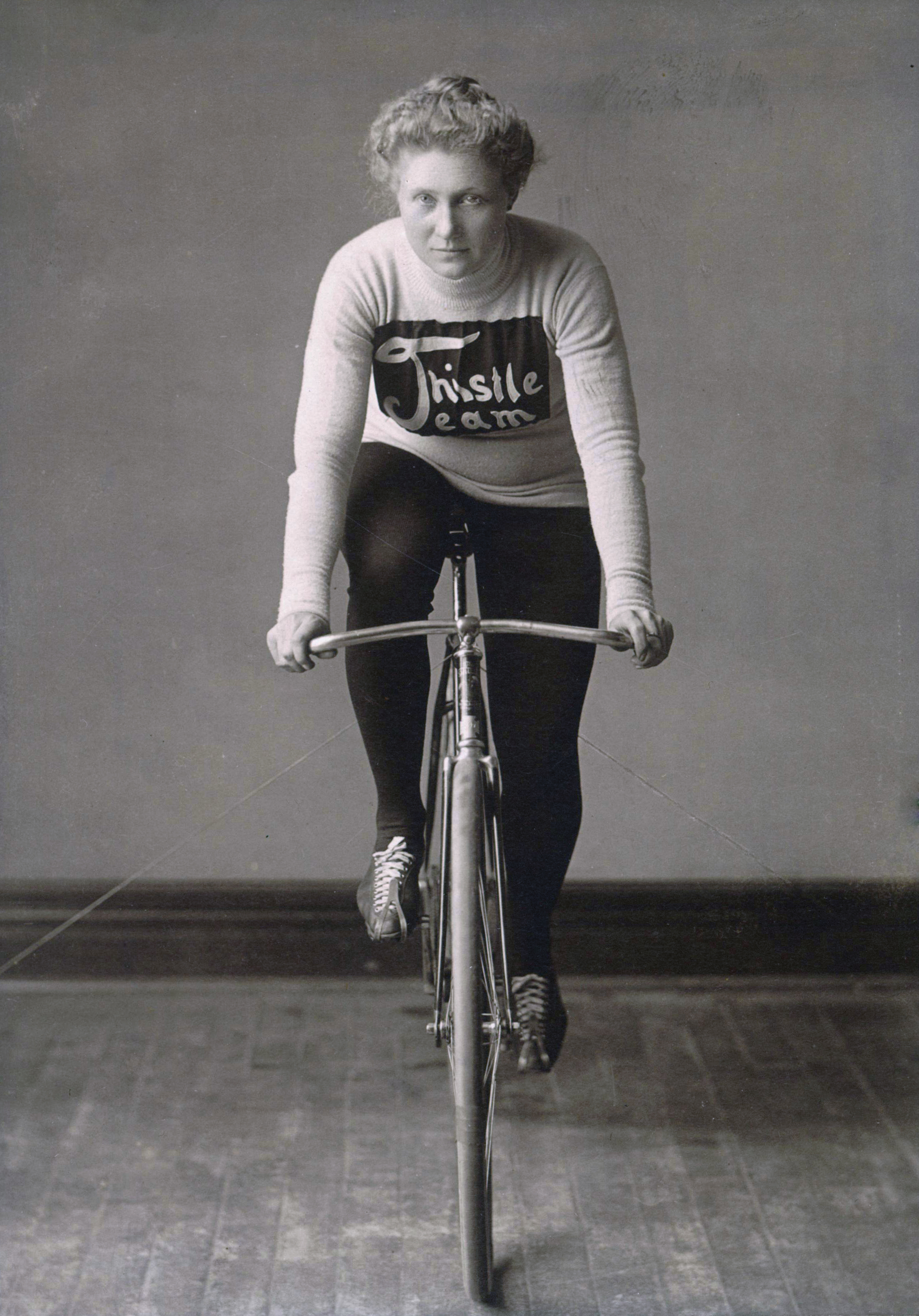 "Tillie Rides a Thistle" was the caption above her picture hung in nearly every bicycle shop from coast to coast in 1896. Tillie chose the Thistle bicycle above all others throughout her racing career. She also appeared in advertisements for Morgan & Wright Tires and the Excelsior Supply Company. She endorsed the Stearns bicycle in New York for a short time in 1898.